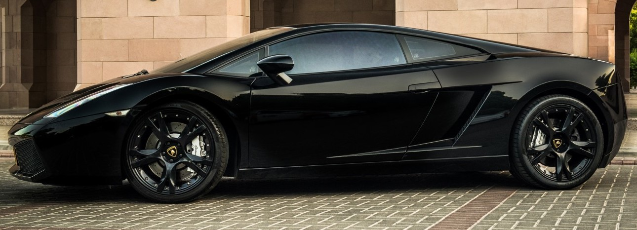 A picture of Lamborghini Gallardo Nera, 2007. Next to the Grand Mouque, Oman.